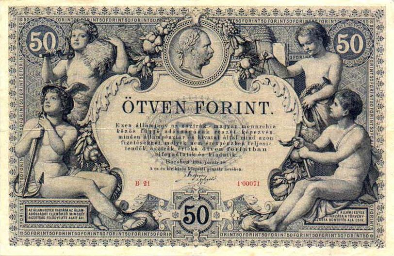 50 Austro-Hungarian Gulden/forint (1884) - reverse